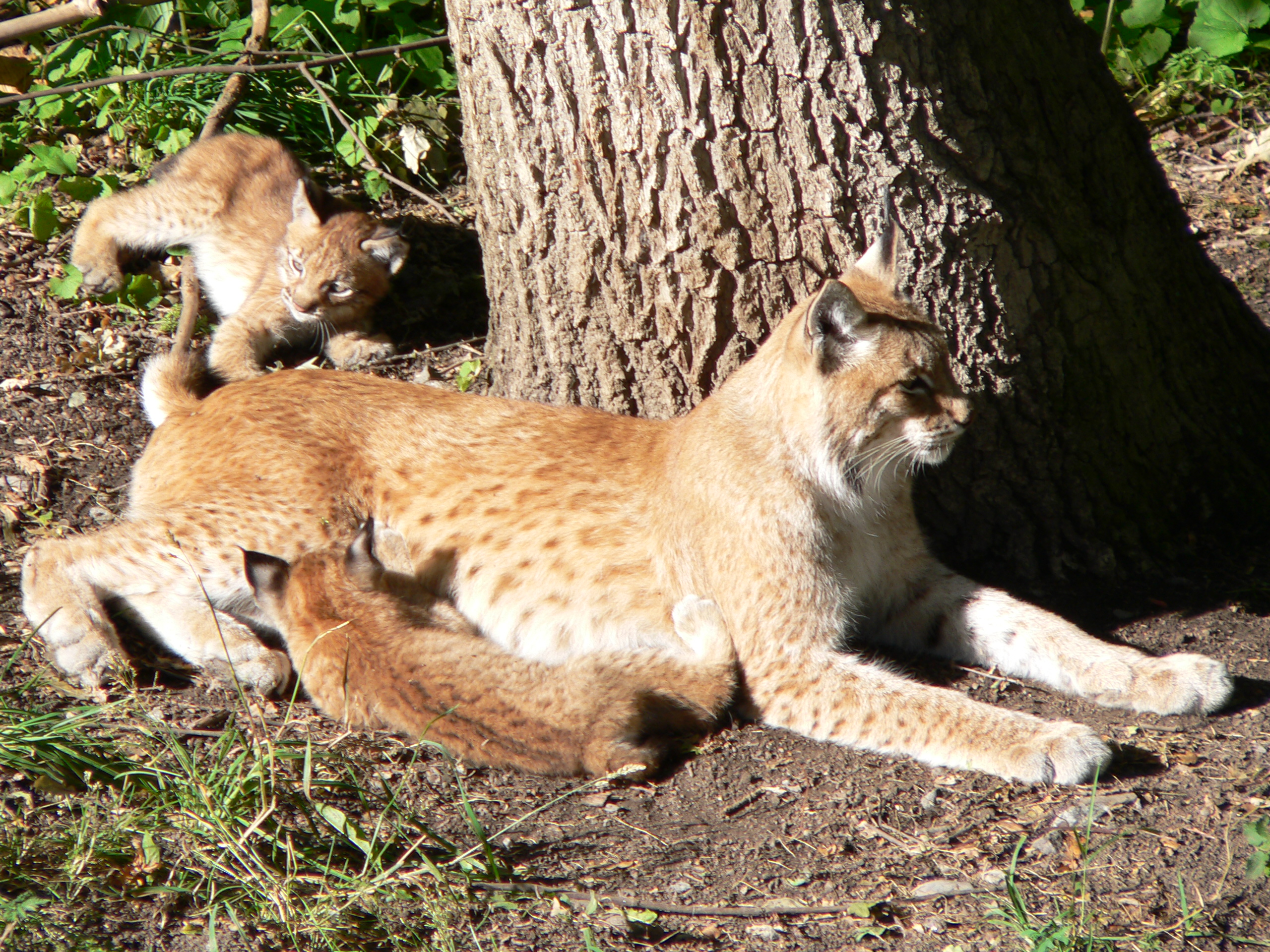 Lynxes